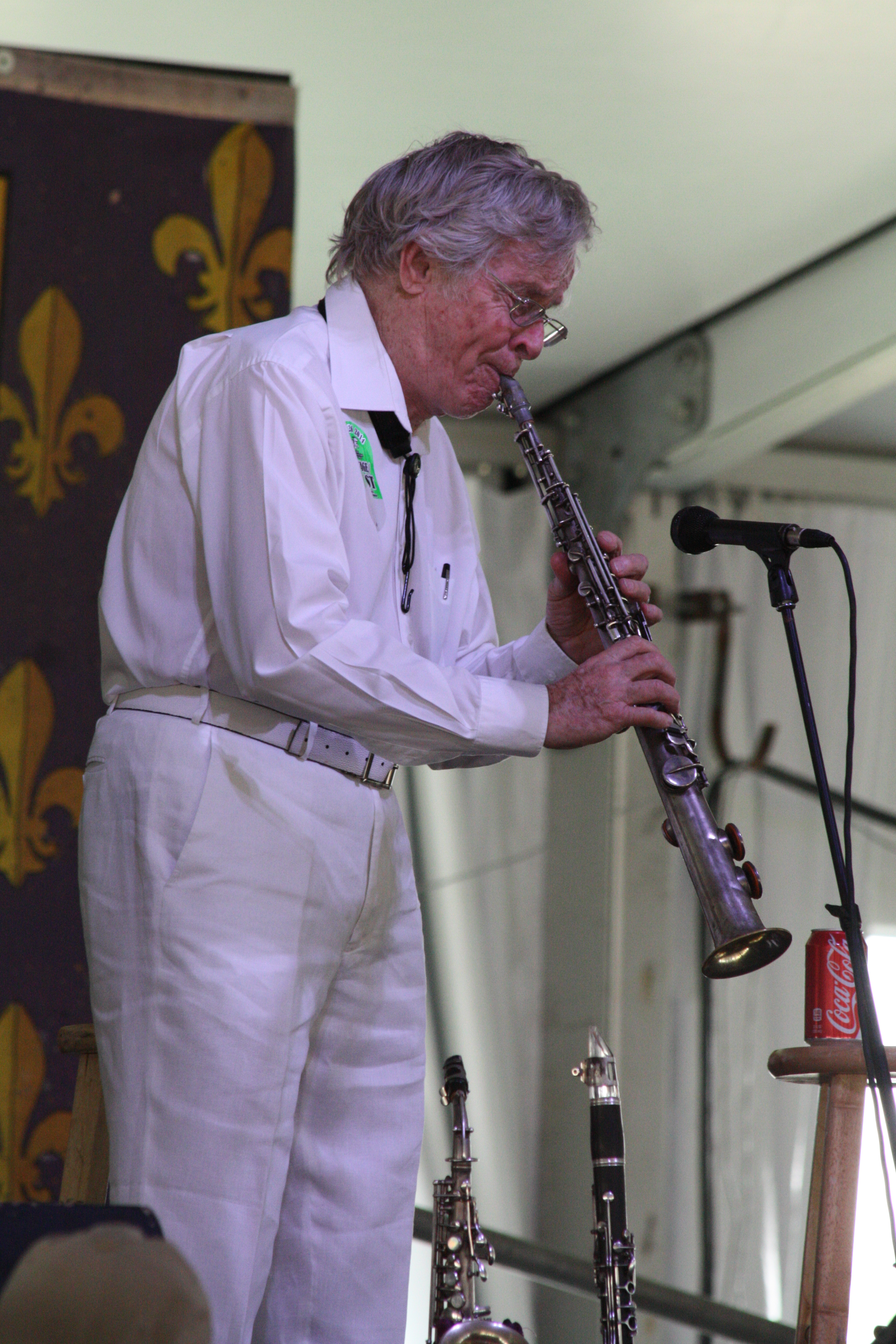 New Orleans Jazz Fest 2014